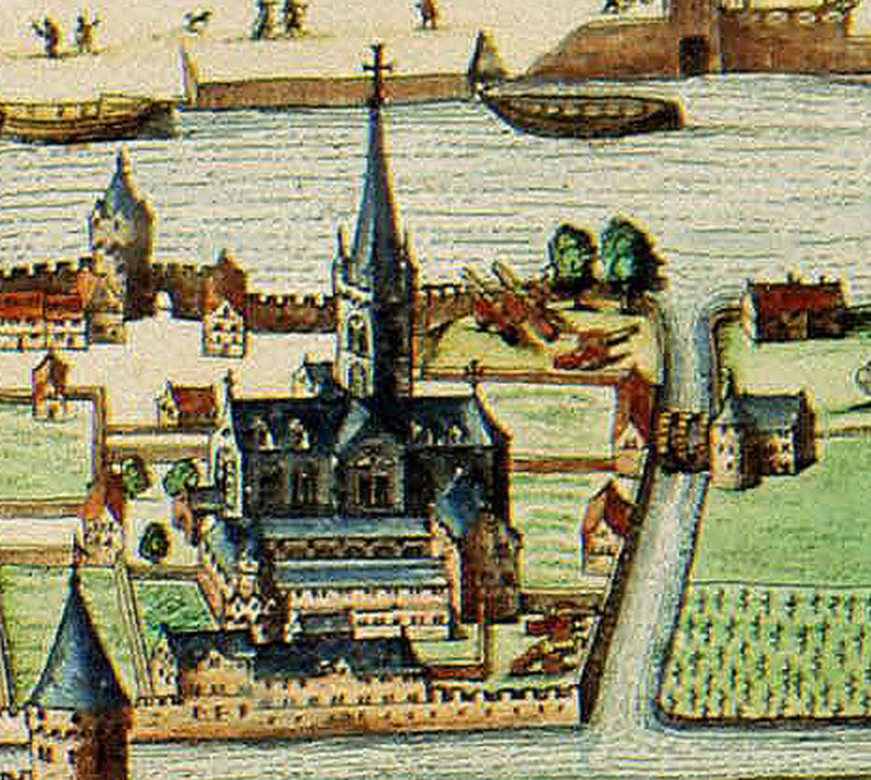 Maps by Willem and Johannes Blaeu